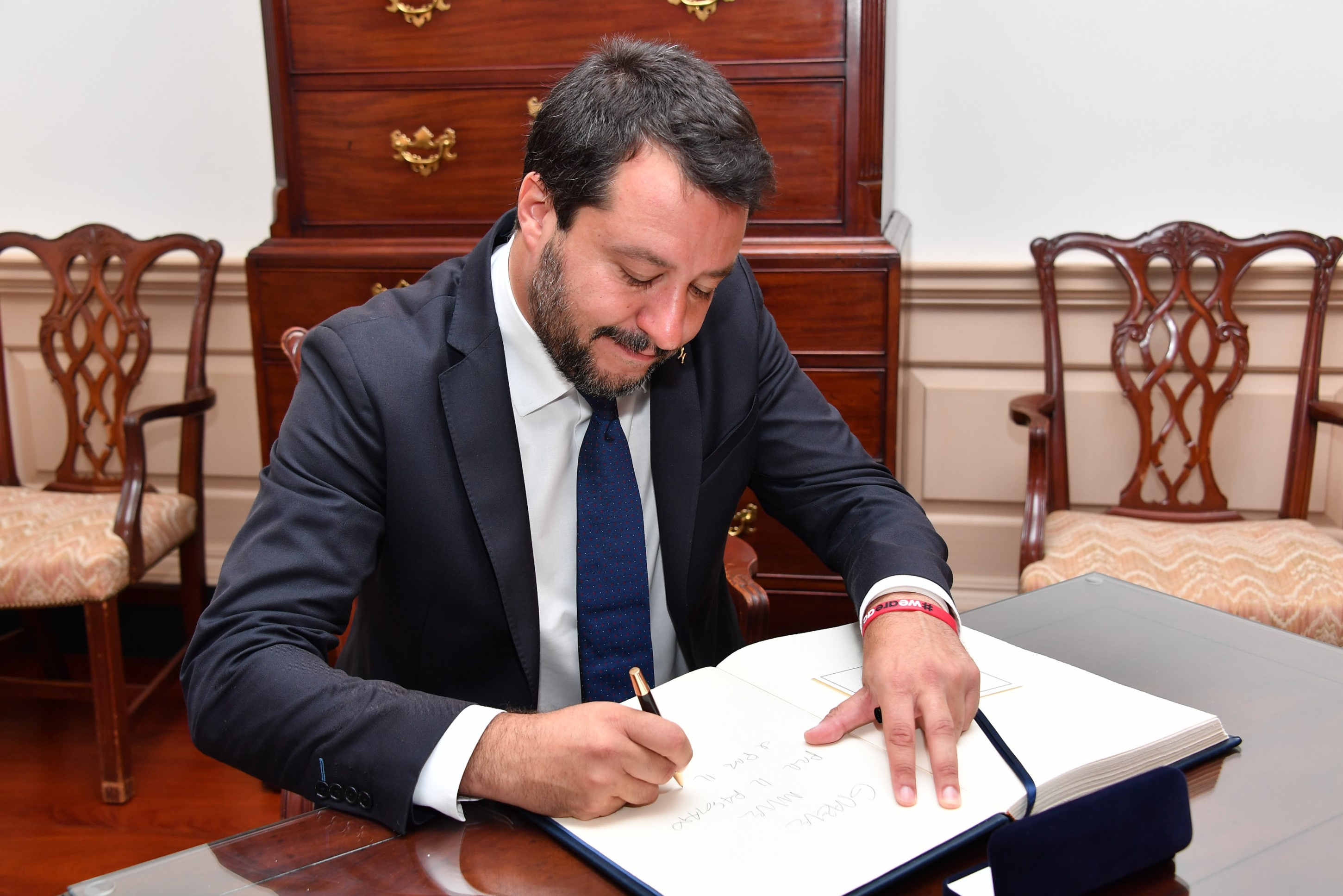 Italian Deputy Prime Minister Matteo Salvini signs Secretary Pompeo's guestbook before their meeting at the U.S. Department of State in Washington, D.C, on June 17, 2019. [State Department photo by Michael Gross/ Public Domain]